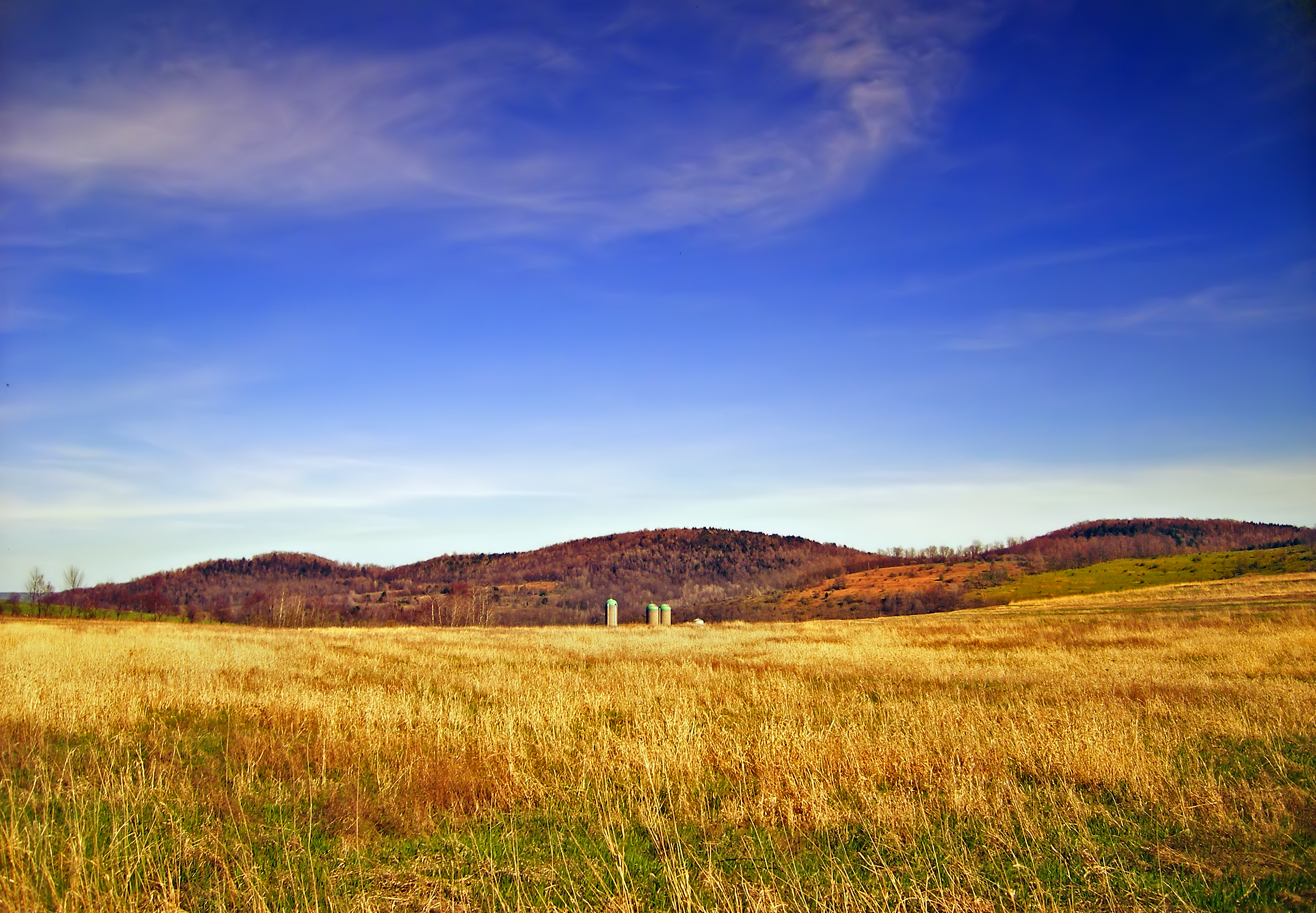 Delmar Township, Tioga County, near Wellsboro.